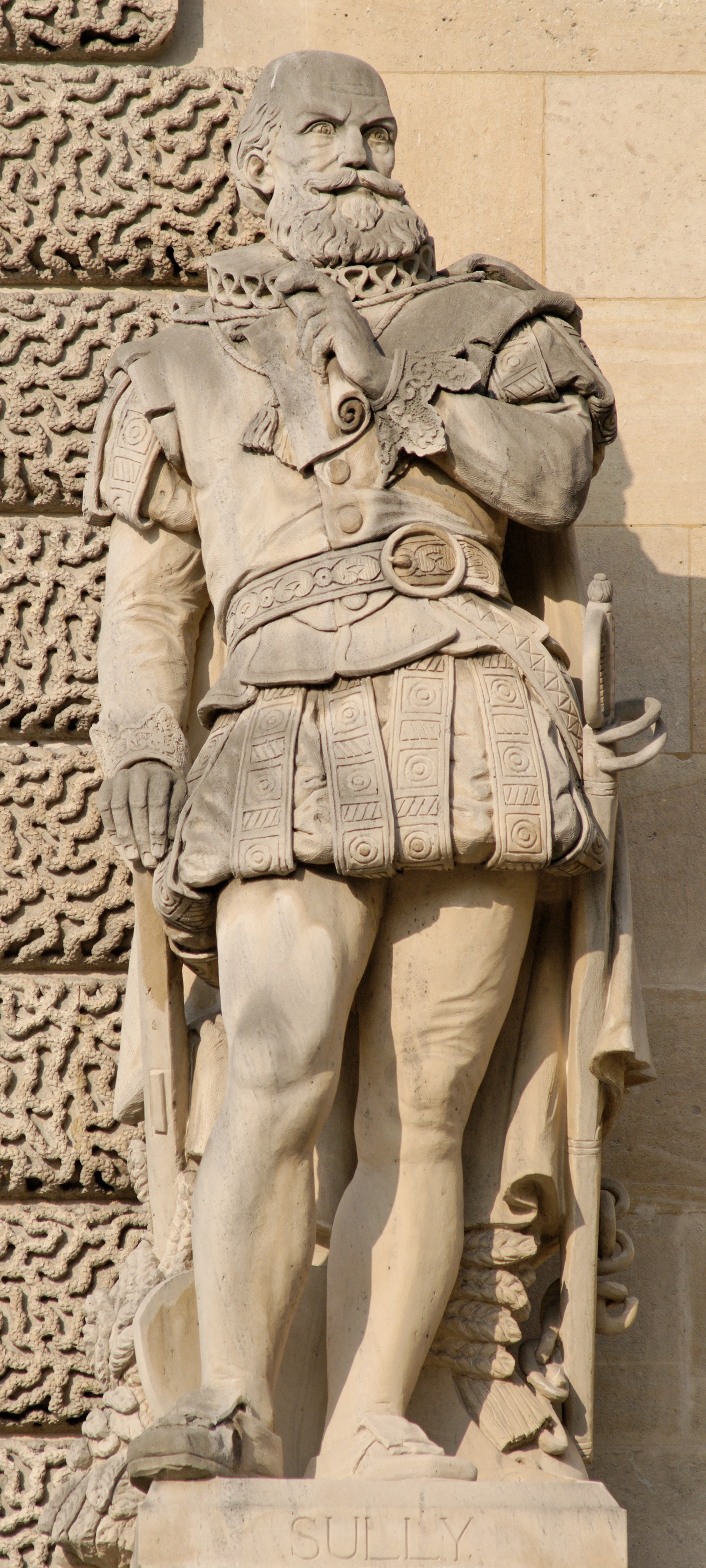 Sully by Gabriel-Vital Dubray. Stone, ca. 1853. 3rd statue from Pavillon Colbert to Pavillon Sully, Cour Napoléon in the Louvre.